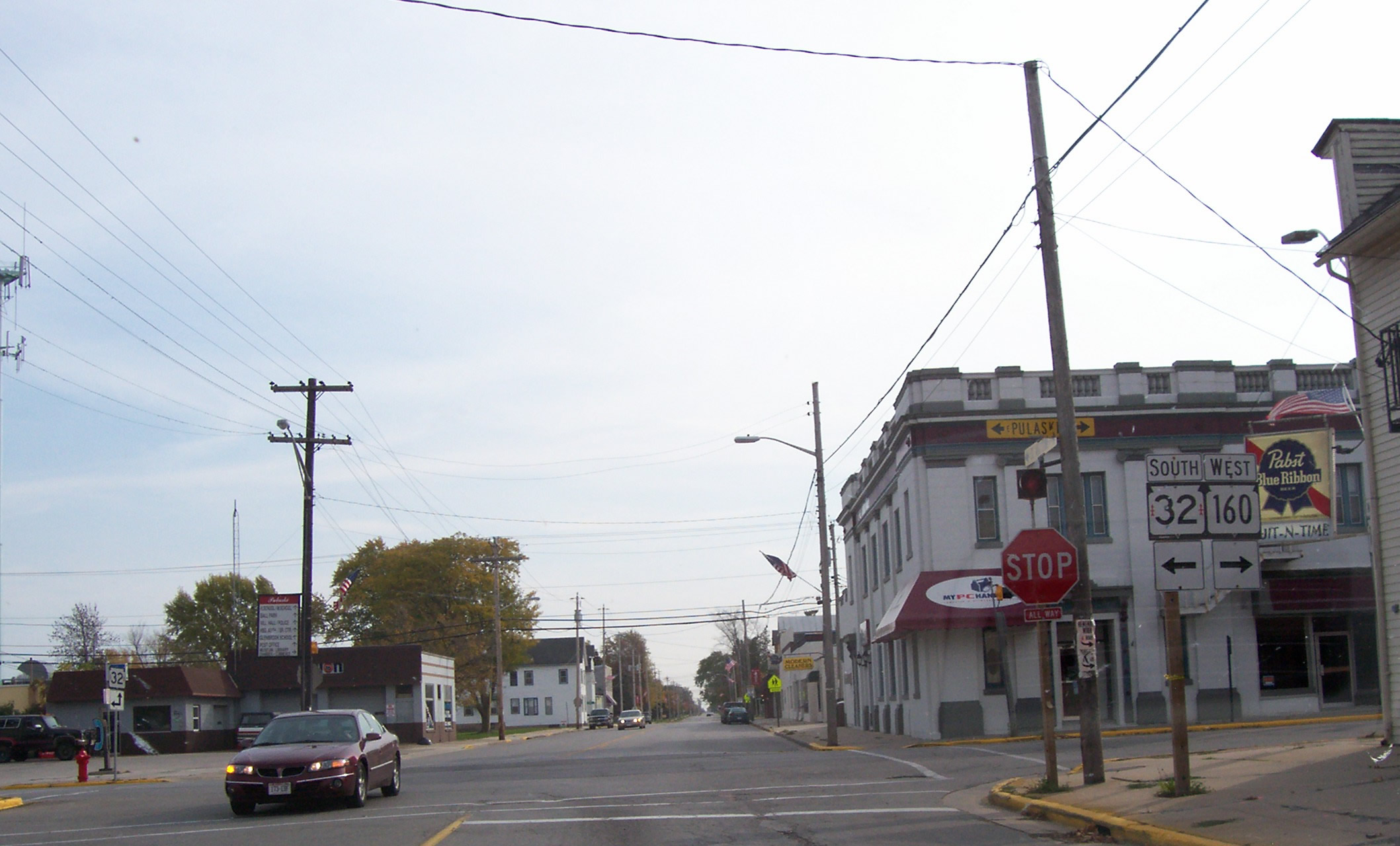 Travelly south on Highway 32 (Wisconsin) at the eastern terminus of Highway 160 (Wisconsin) in Pulaski, Wisconsin, United States. This image (Image:PulaskiWisconsinChurch.jpg was taken by turning left and travelly approximately 100 feet, so the church is at this intersection). This image was taken October 8, 2006 by User:Royalbroil, and was cropped Category:Images of Wisconsin highways